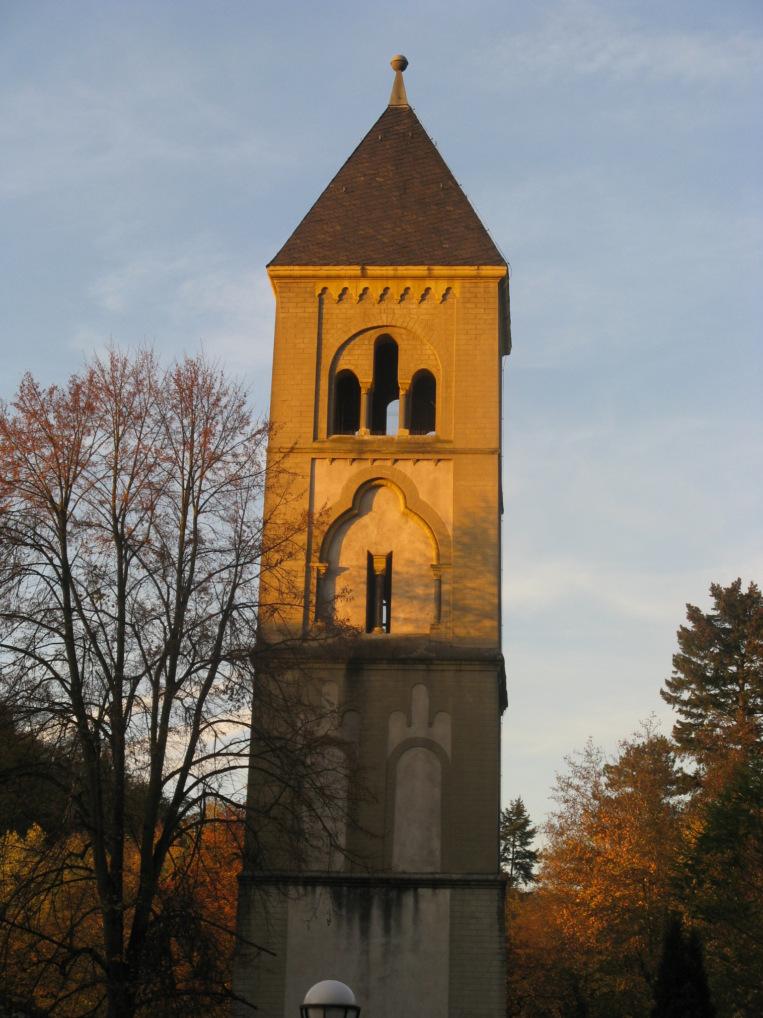 Old romanic Tower of destroyed former monastery Vallendar/Germany